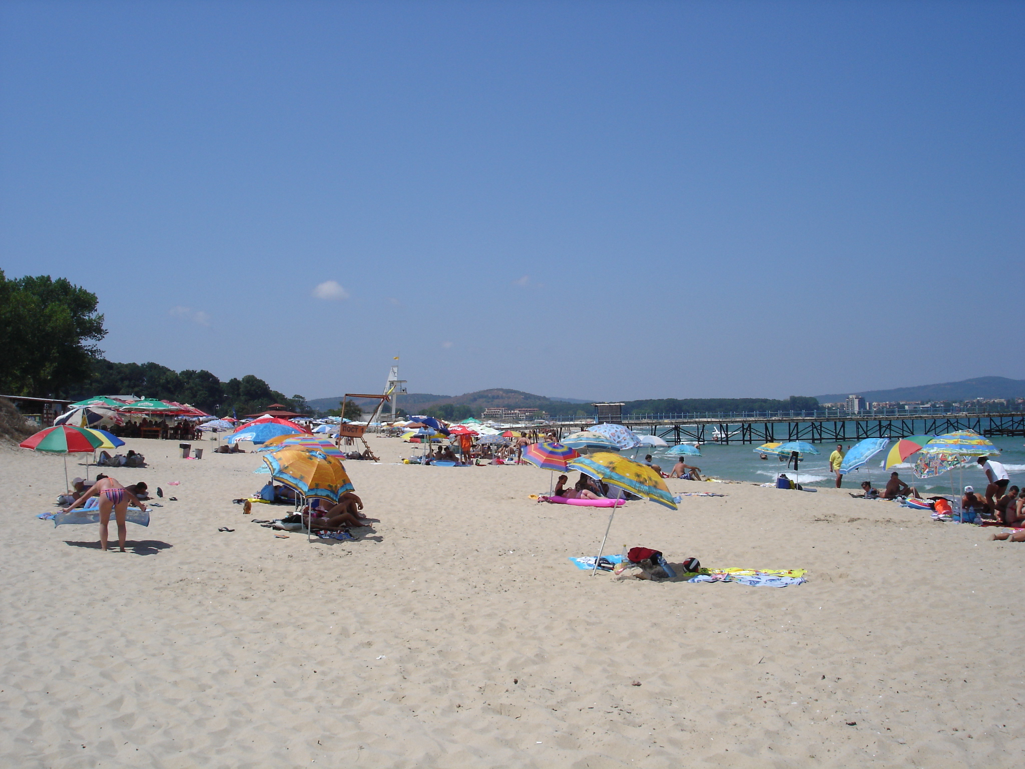 International Youth Centre MMC - beach, Primorsko, Bulgaria